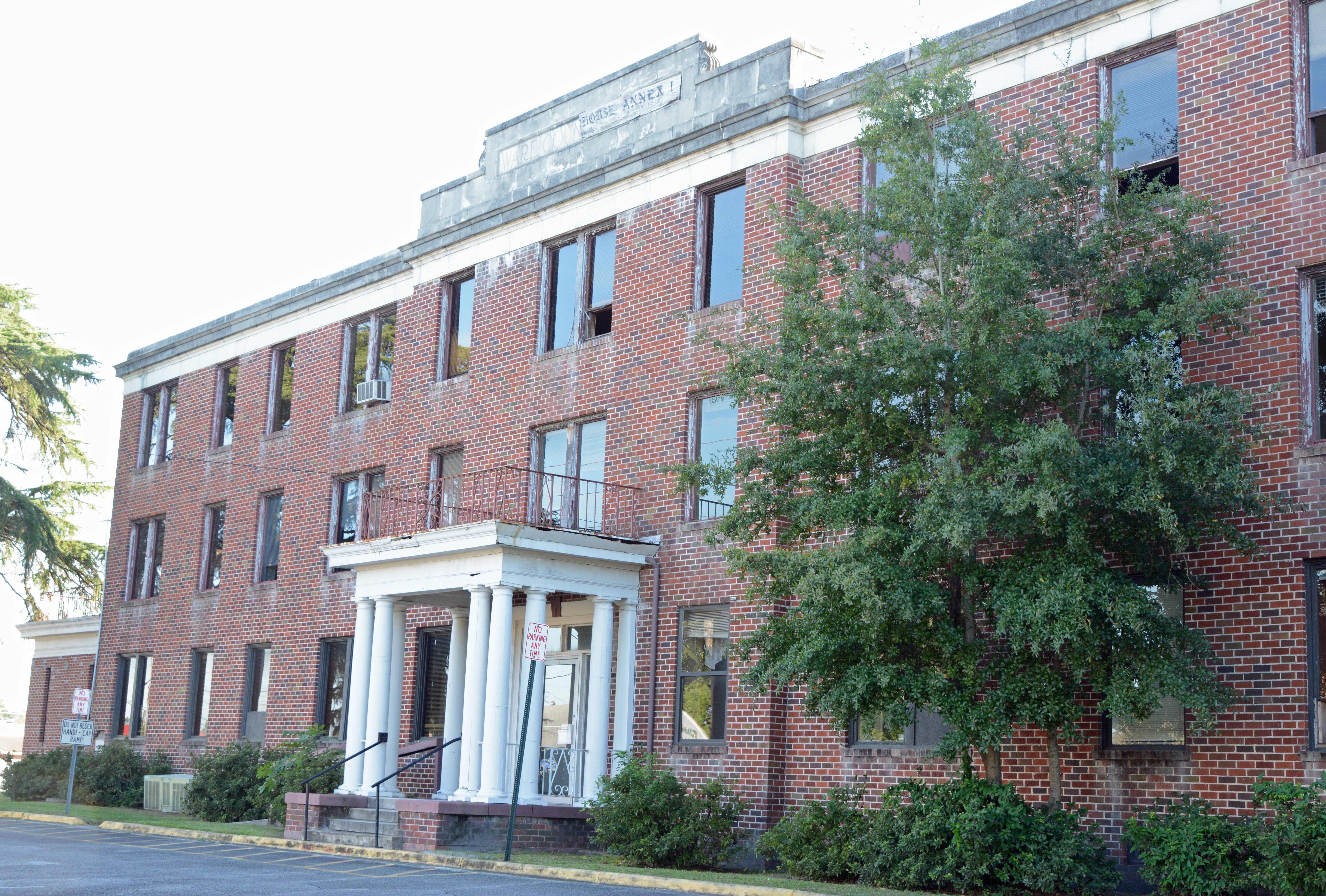 Front of the old hospital in Waycrosss, Georgia, US. After Memorial Hospital was built, the building was used for an annex to the courthouse. Now used by some government offices.